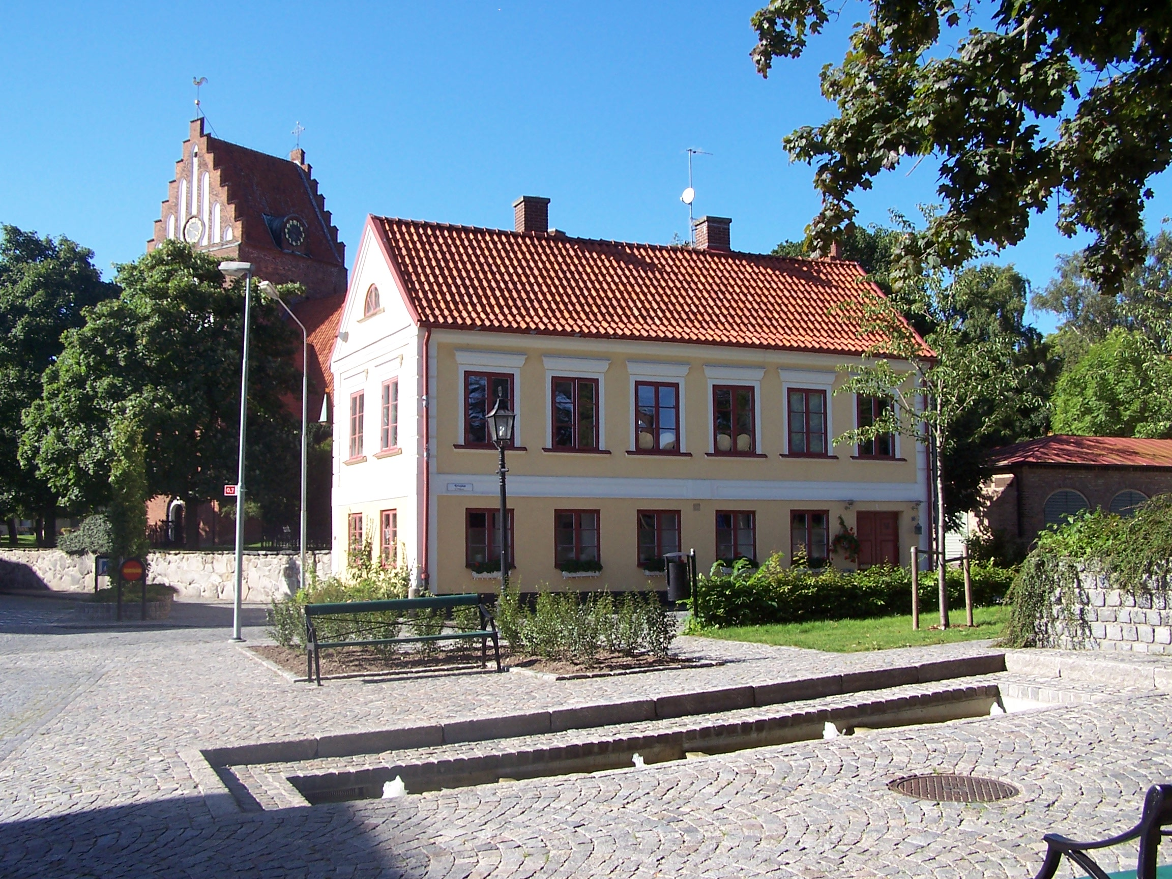 The mansion "Nicolaigården", Sölvesborg, Sweden